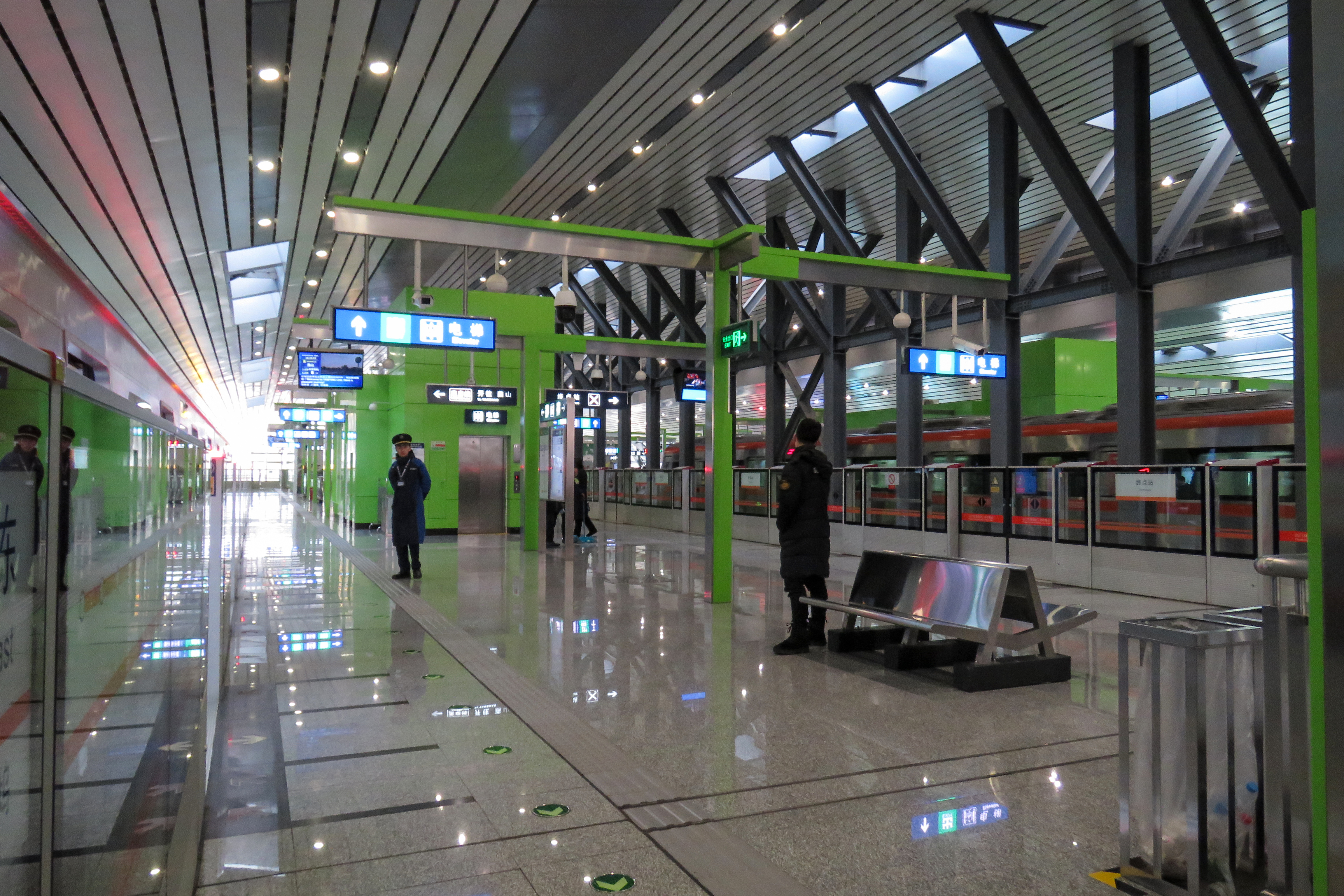 East Yancun Station if SHM naming custom was applied... This simply reminds me of East Xujing Station. After all, this station is located in Dongyancun, Xilu Subdistrict, so calling it East Yancun Station isn't all wrong.